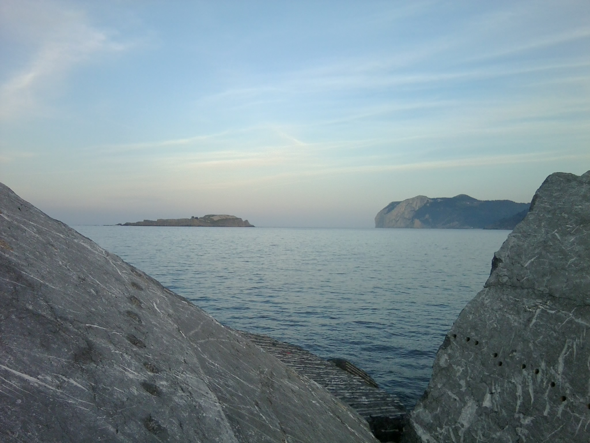 The isle of Izaro and the cape Ogoño, looked from Bermeo.